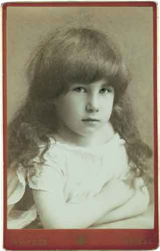 Russian novelist and poet Andrei Bely as a child (Borya Bugaev)